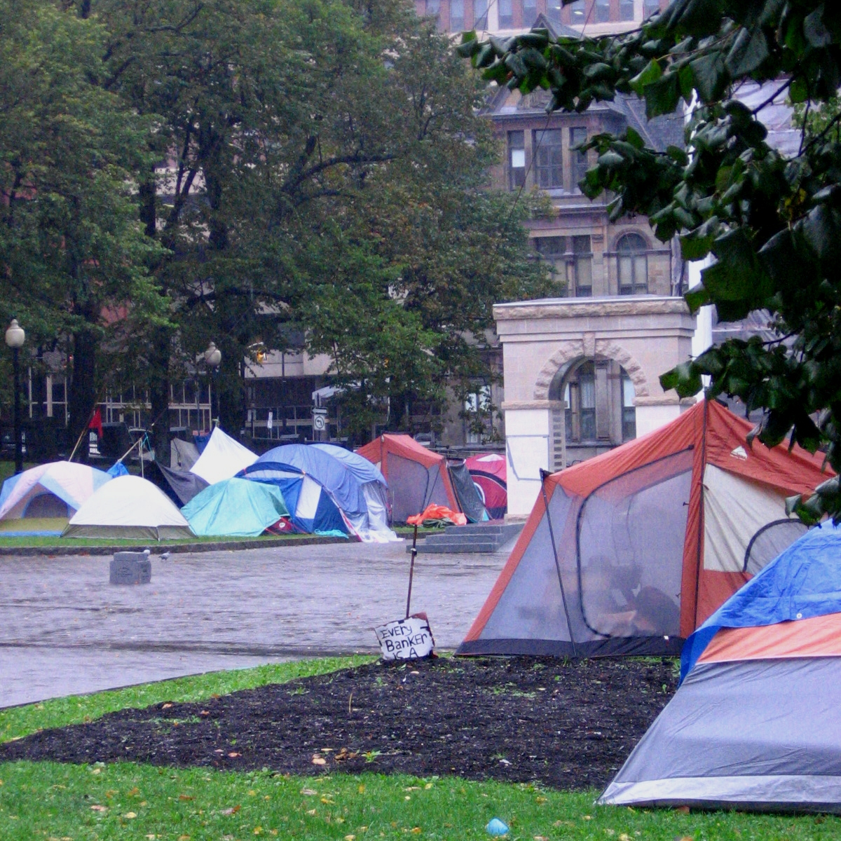 Photo from the Occupy Nova Scotia event in the Grand Parade, Halifax Regional Municipality, October 20, 2011. The uploader estimates there were about 50 tents on site this day. The entire day was characterized by heavy rains. The image was made about noon.